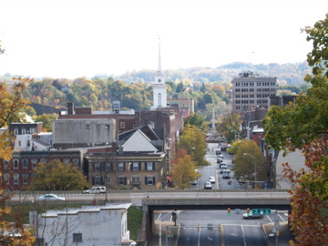 Skyline of Easton, PA from Lafayette College